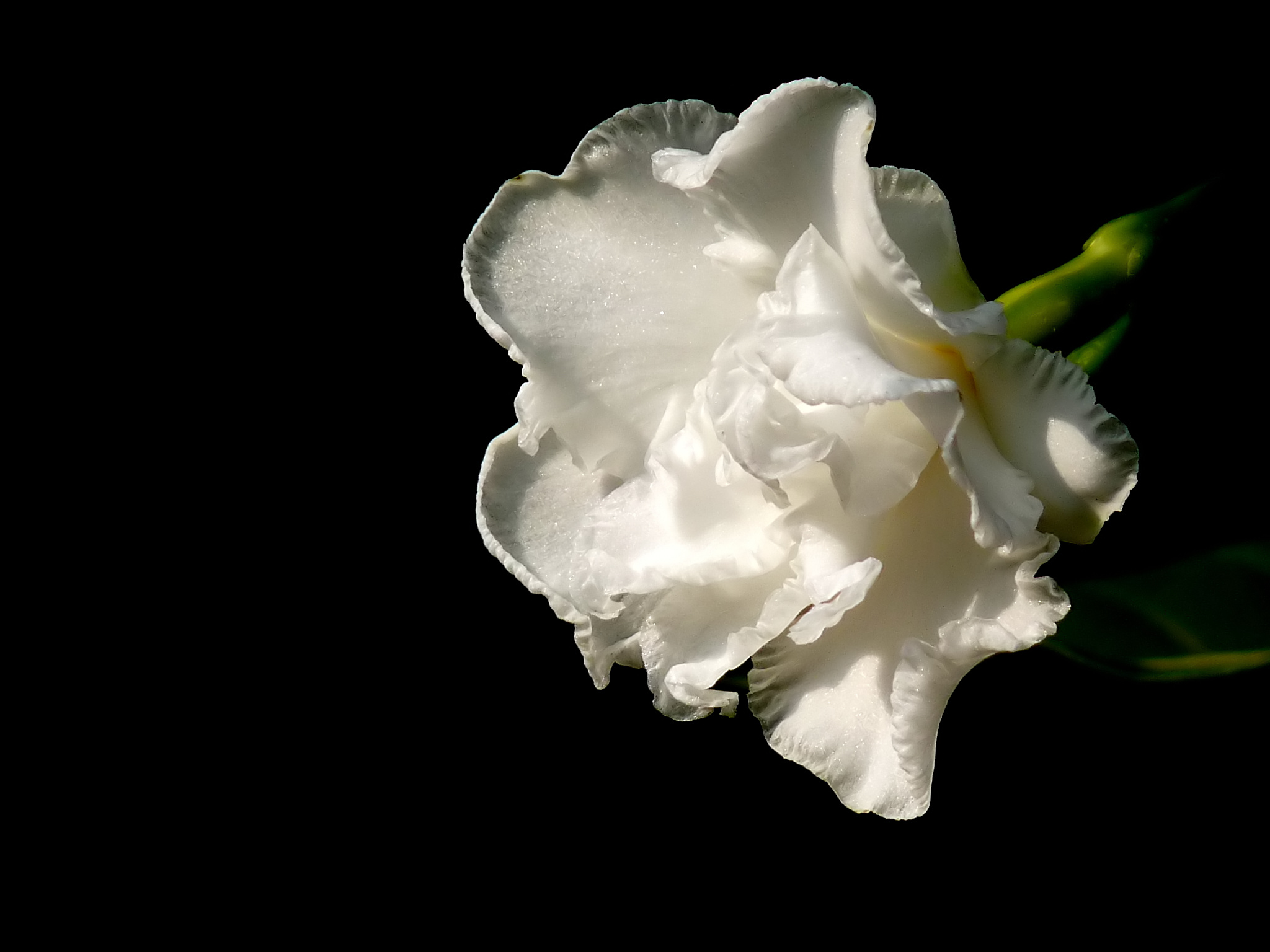 Crape jasmine, Tabernaemontana divaricata, is a beautifully shaped evergreen shrub that forms symmetrical 6 foot high mounds. The many branches tend to grow almost parallel to the ground giving the shrub an attractive horizontal aspect (the species name, divaricata means "at an obtuse angle"). Like many members of the Apocynaceae family, stems exude a milky latex when broken. The large shiny leaves are deep green and are 6 or more inches in length and about 2 inches in width. Crape jasmine blooms in spring but flowers appear sporatically all year. The cultivar 'Flore Pleno' has beautiful double flowers, with good fragrance. The other variety has pinwheel shaped five-petal flowers with no fragrance. Taken at Kadavoor, Kerala, India.